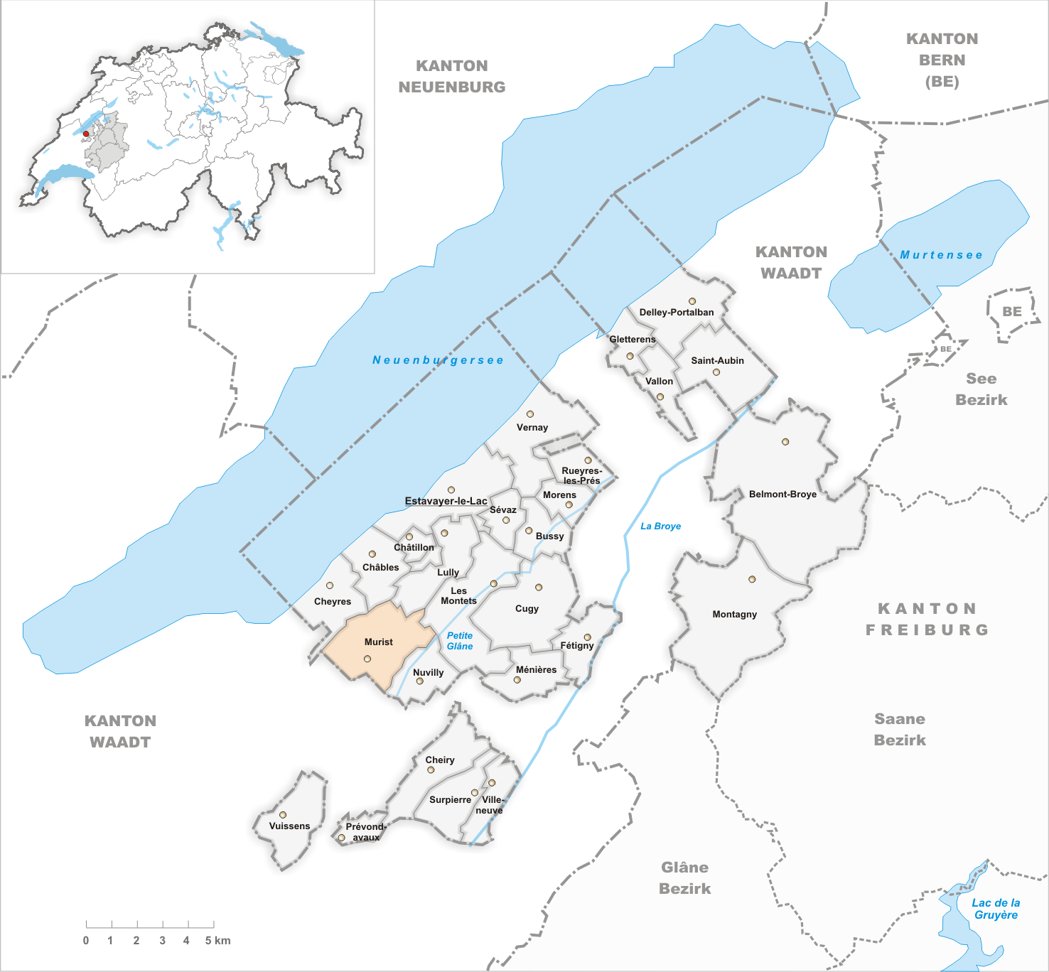 Municipality Murist